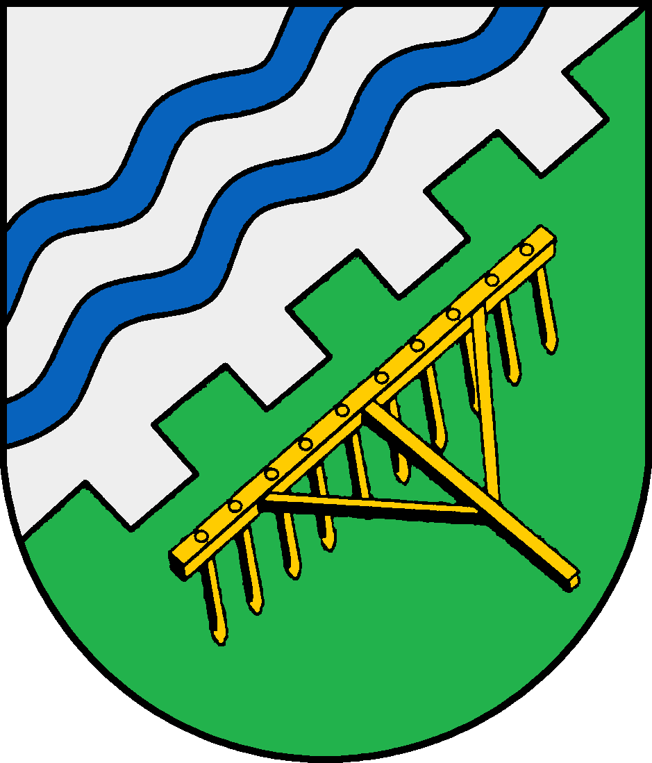 Coat of arms of the municipality Wisch in Schleswig-Holstein, Germany.